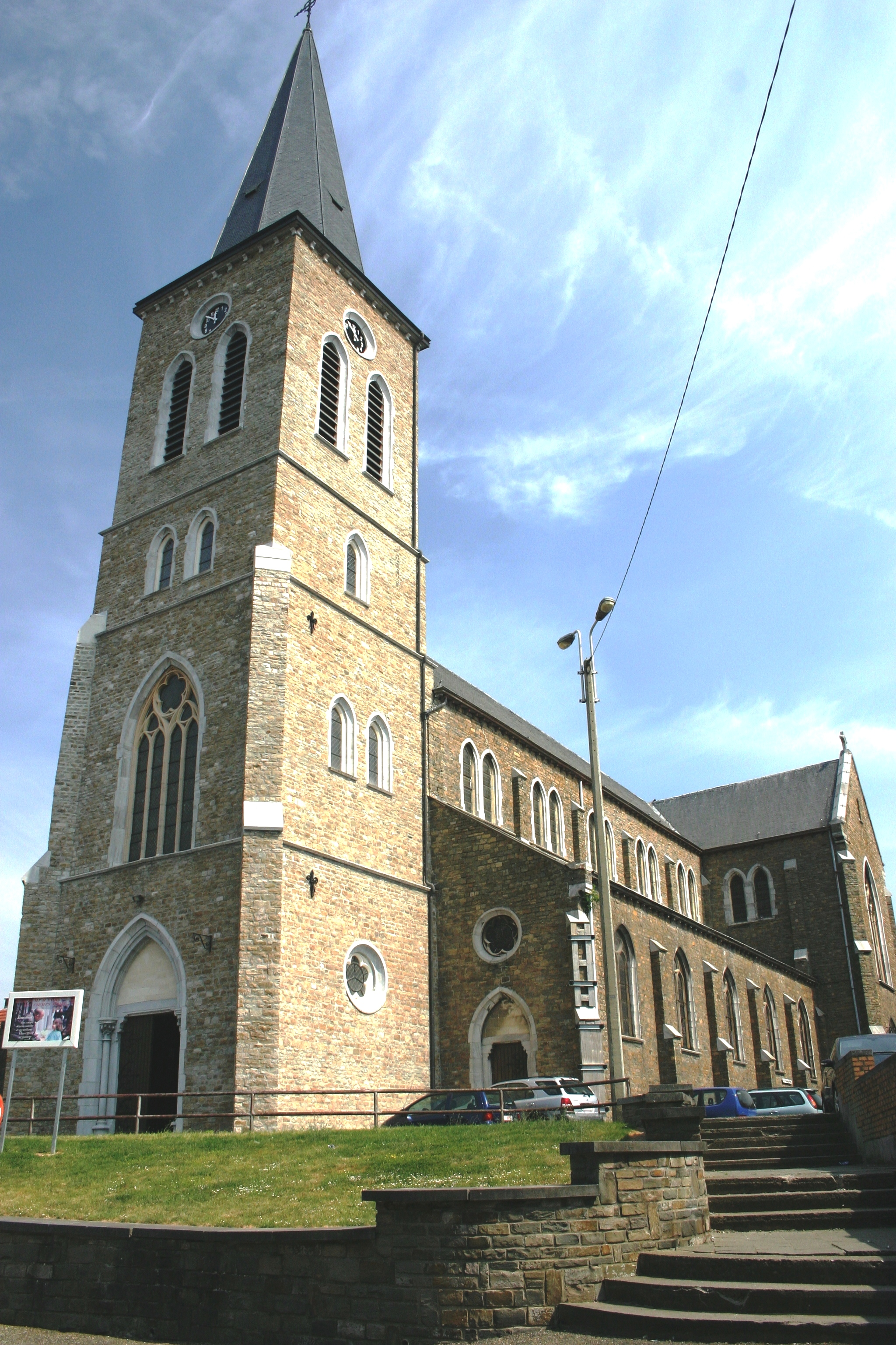 Church of Landen